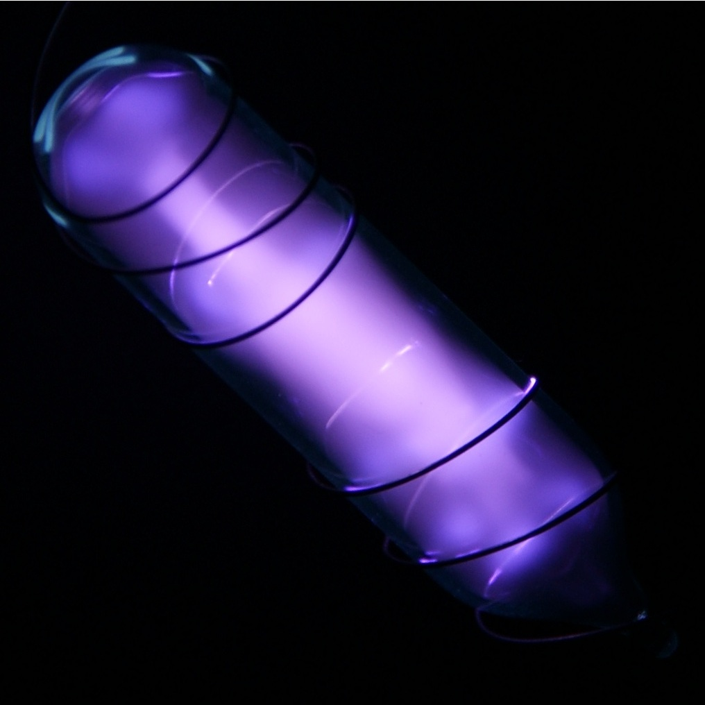 Vial of glowing ultrapure oxygen, O2. Original size in cm: 1 x 5.